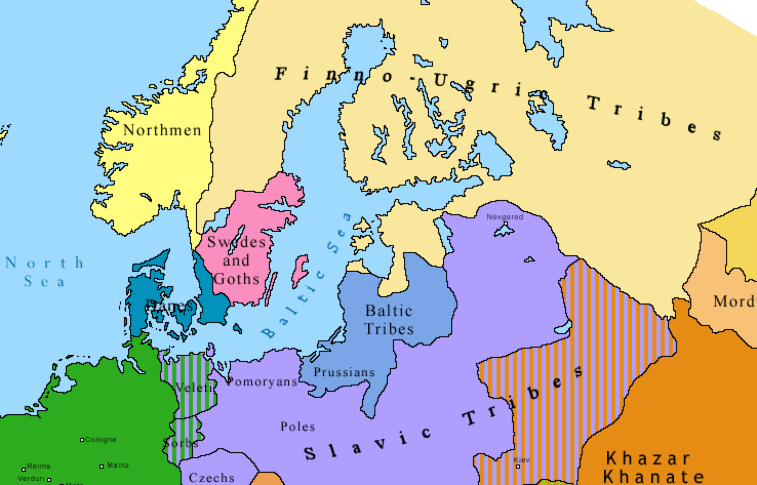 Derived from this map